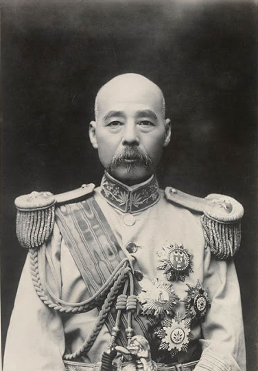 Feng Guozhang, President of the Republic of China, c. 1917, photograph by Yung Kuang, State Library of New South Wales, PX*D 156 / vol. 2